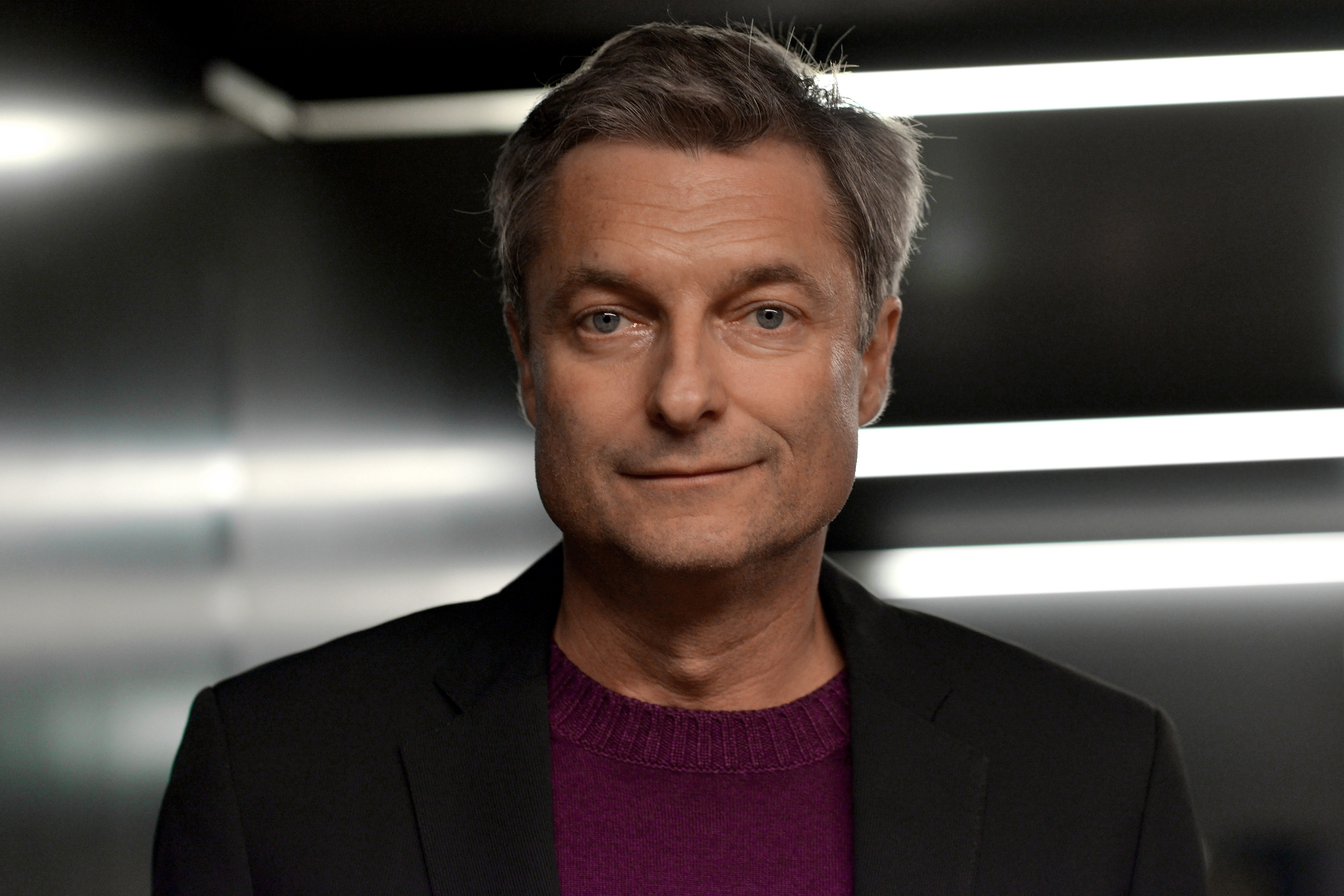 Alfred Dorfer - Nestroy Theatre Awards 2014 at Wiener Stadthalle (Vienna, Austria).